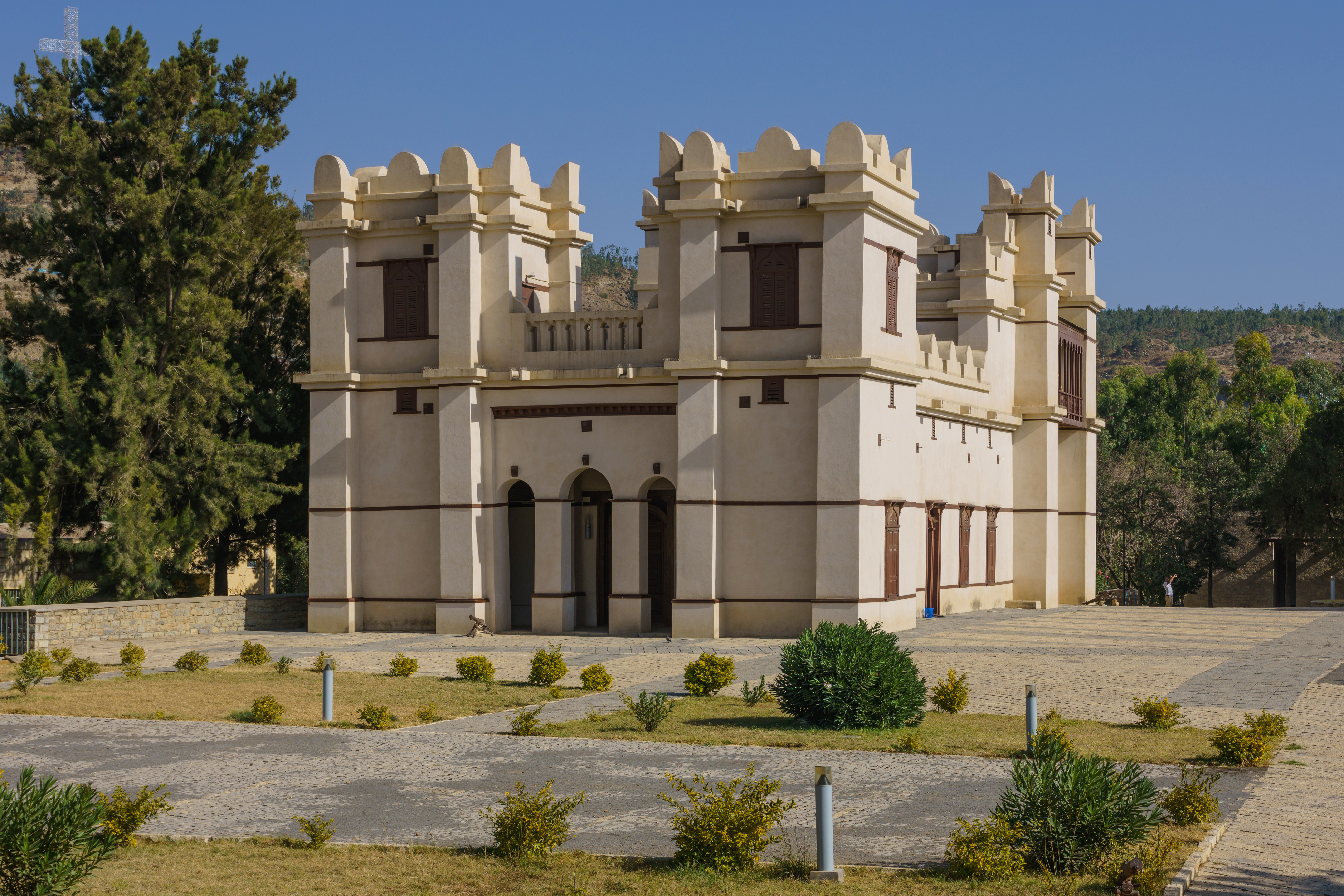 Palace complex of Yohannes IV (Atse Yohannes Museum) in Mekele, Ethiopia